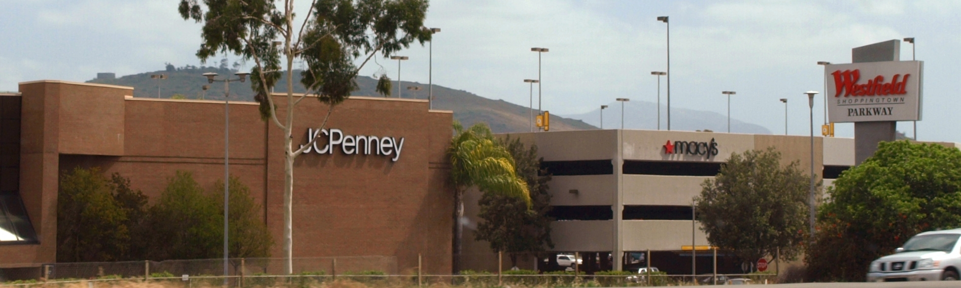 View of the southeastern portion of Westfield Parkway mall with the JC Penny department store anchor (center) and multilevel parking garage(right) in the background. View from eastbound lane of Interstate 8 looking northeast. This photograph was taken with an Olympus E-510 DSLR camera and edited (color balance, brightness, contrast, saturation, rotate crop) using ArcSoft PhotoStudio 5.5